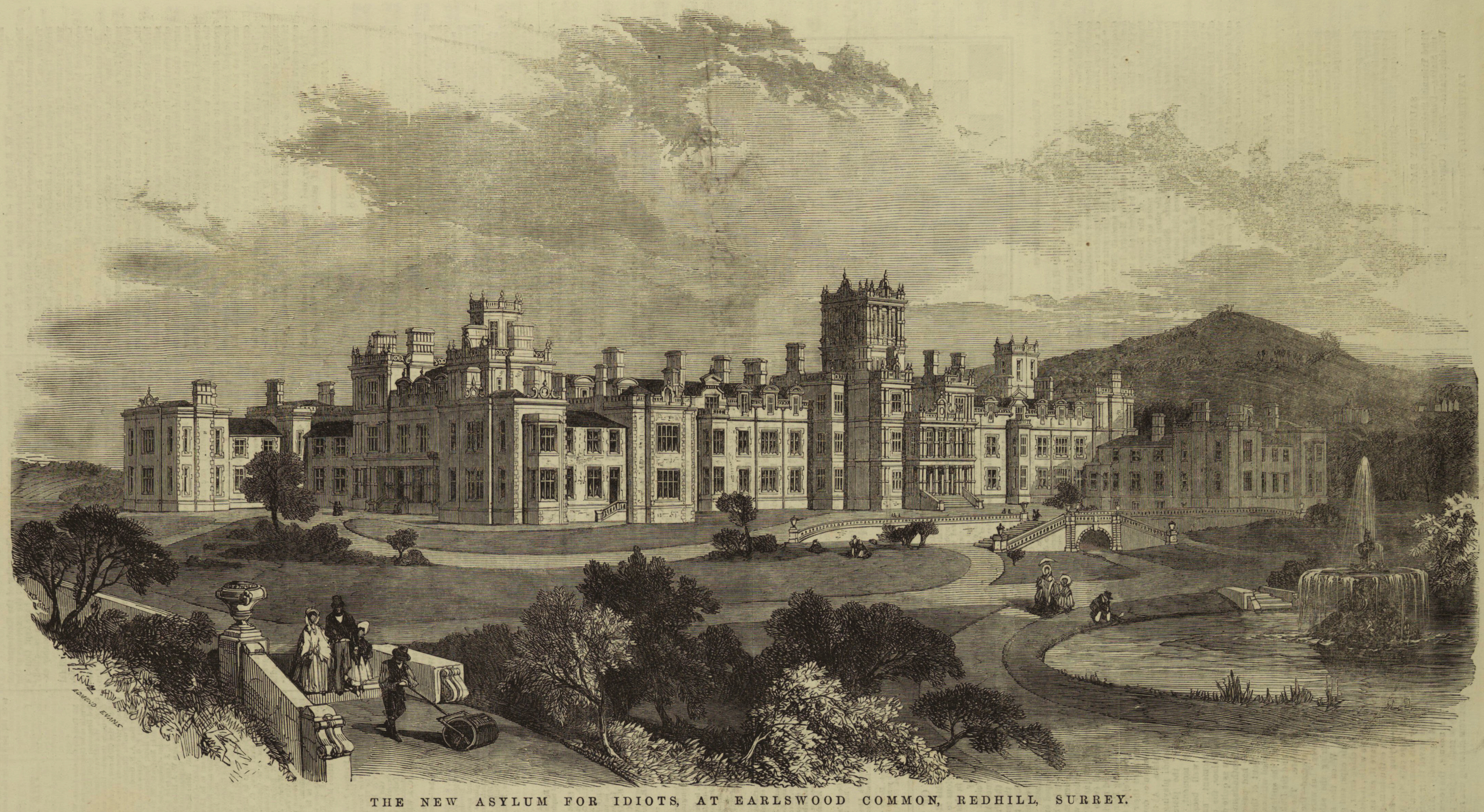 Royal Earlswood Hospital engraving by Edmund Evans (1826 – 1905)